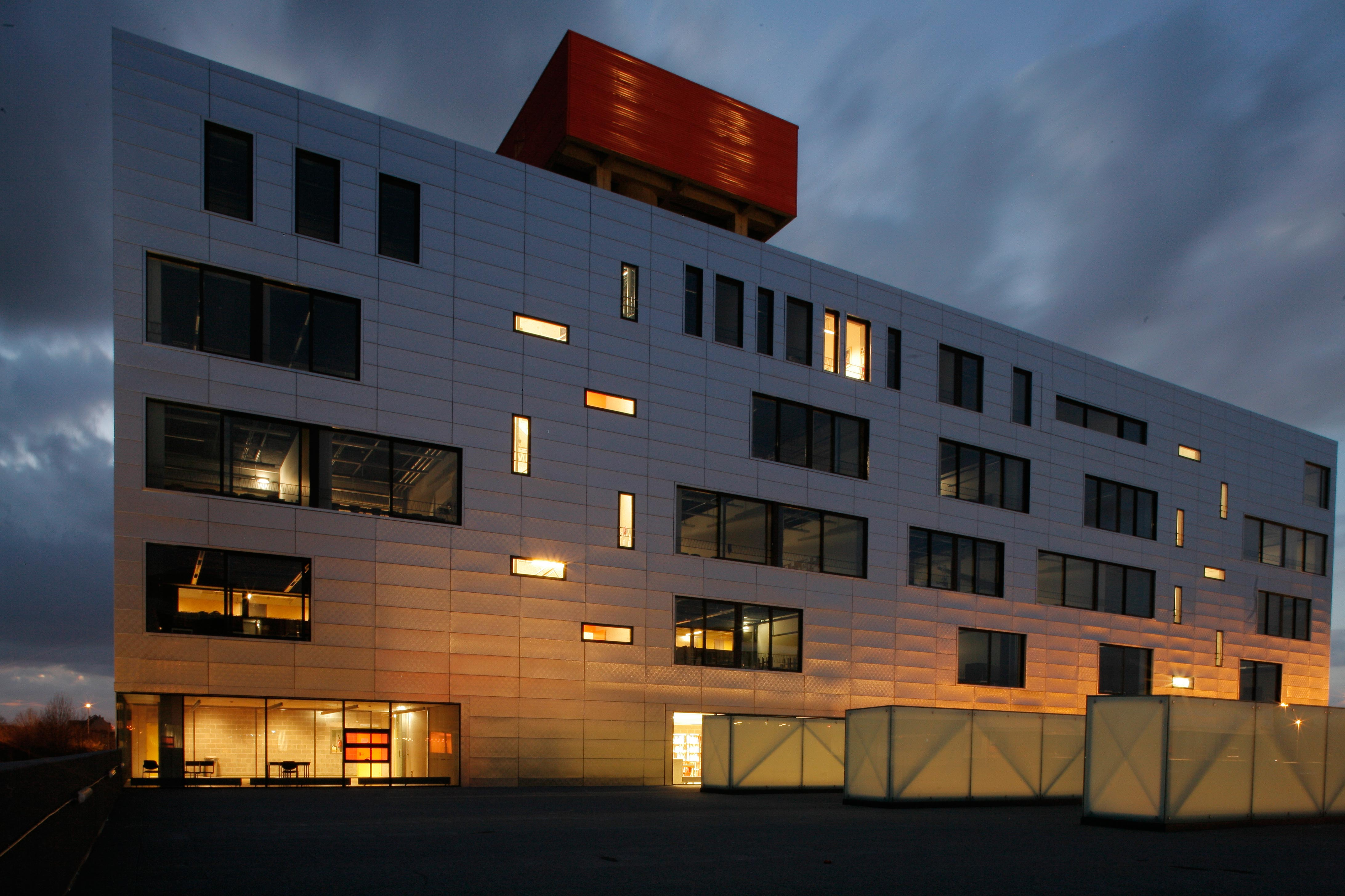 Realization of an extension for the Erasmus Hospital by MA ² - Metzger & Associates Architectur in Brussels, Belgium.